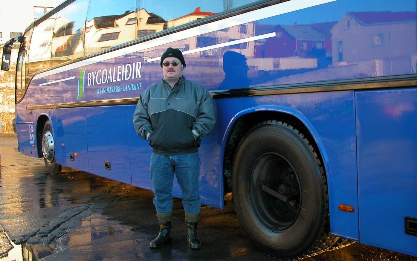 Overland bus of Strandfaraskip Landsins in Porkeri, Faroe Islands, Denmark.